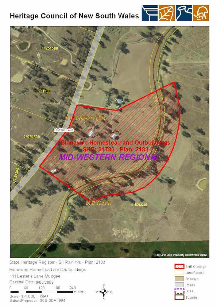 Binnawee Homestead: SHR Plan 2183